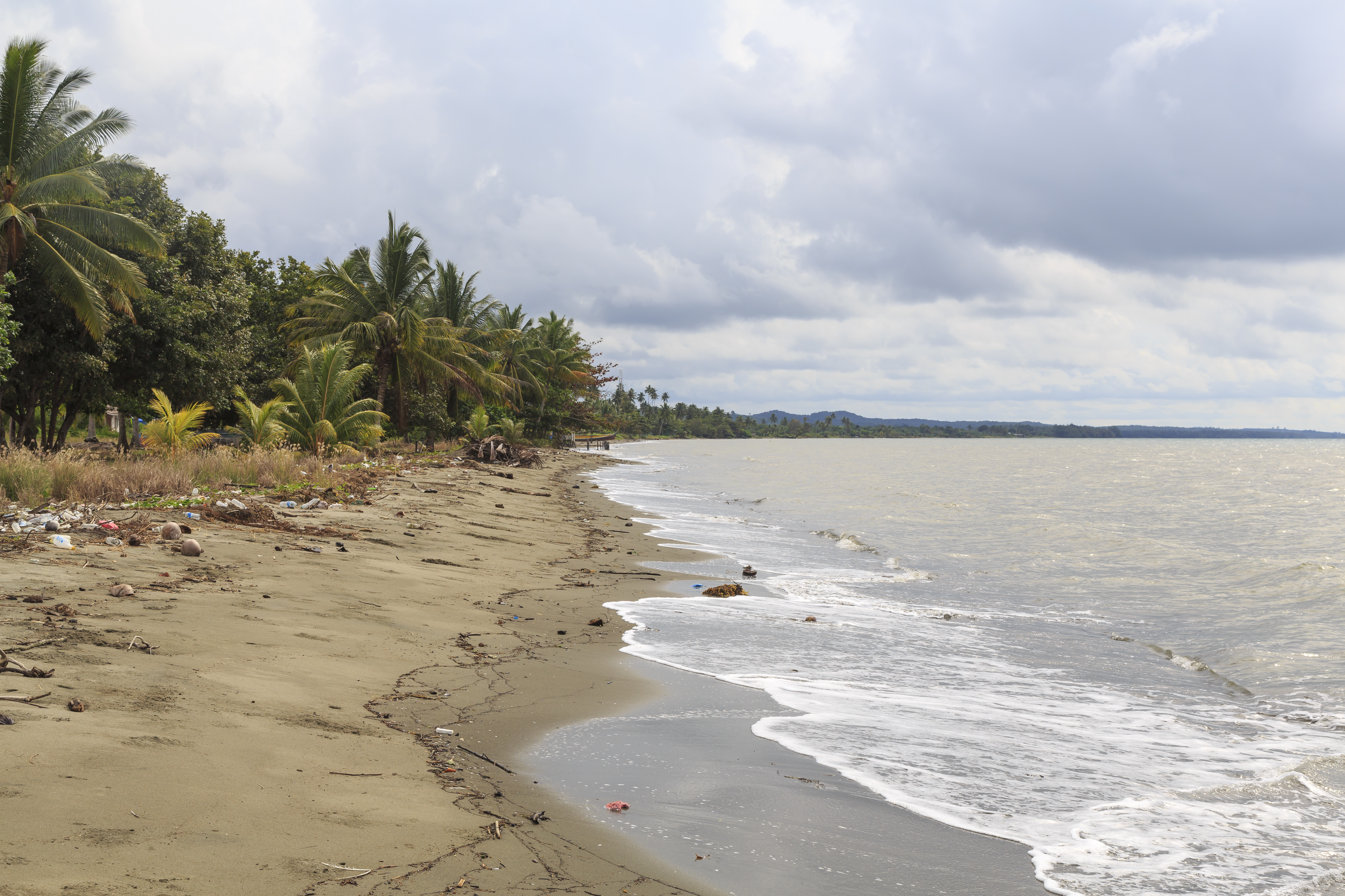 Tungku, Sabah: The beach of Pekan Tungku